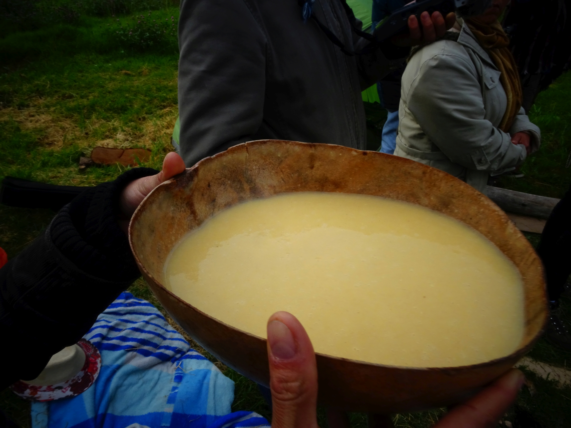 Chicha served at the yearly "Fiesta del Huán", winter solstice ceremony awaiting the rising Sun (Sué) in Muisca and various other indigenous traditions, celebrated at the Archaeology Museum of Sogamoso, Boyacá, Colombia